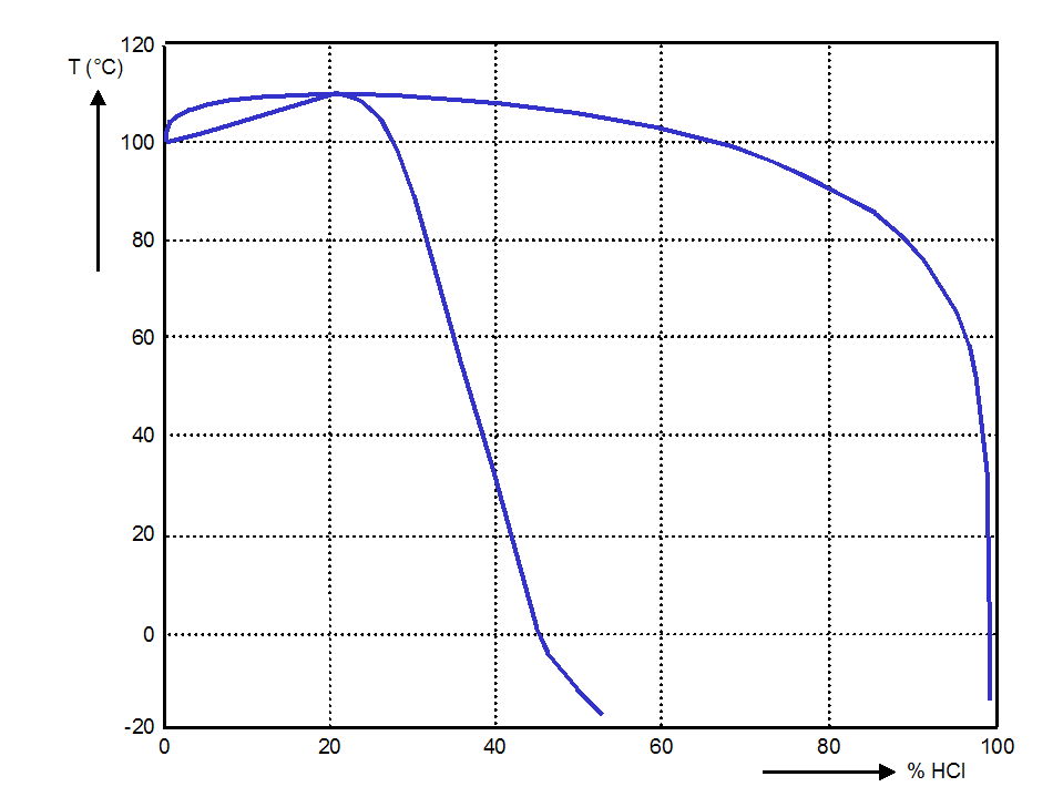 liquid-vapour phase diagram of binary HCl water mixtures